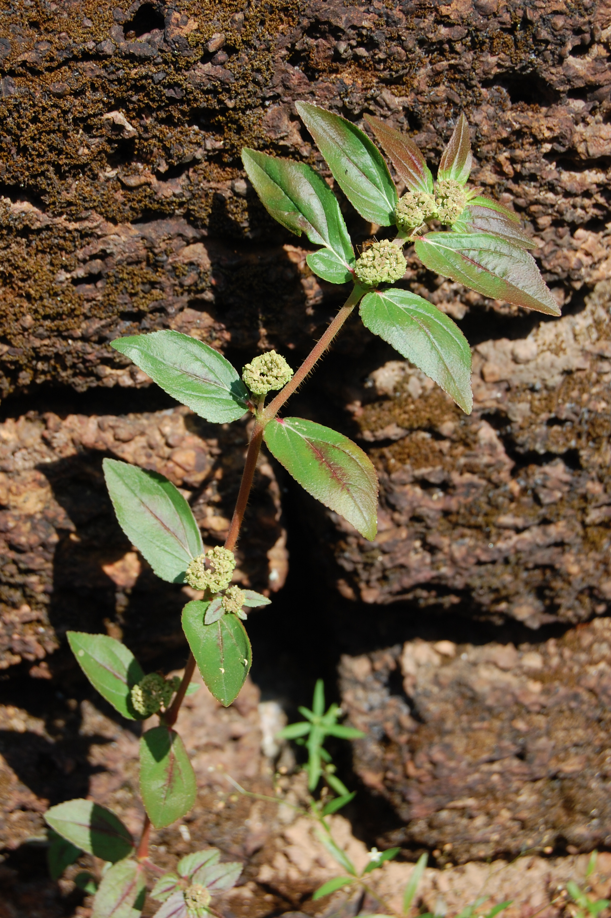 Euphorbia hirta